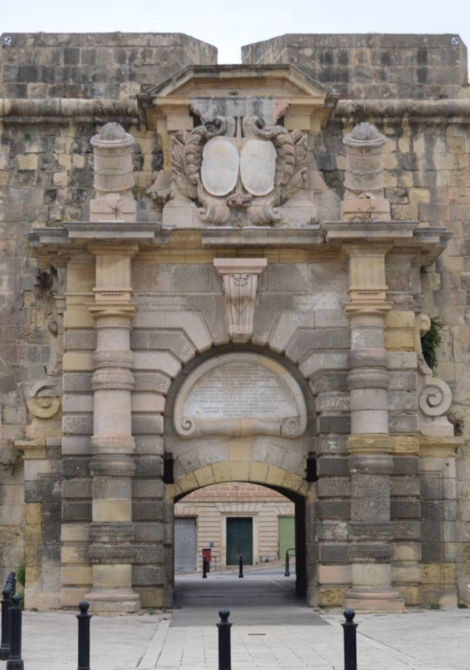 St Helen Gate - Sta Margherita Lines This media is about Maltese cultural property with inventory number 01541.